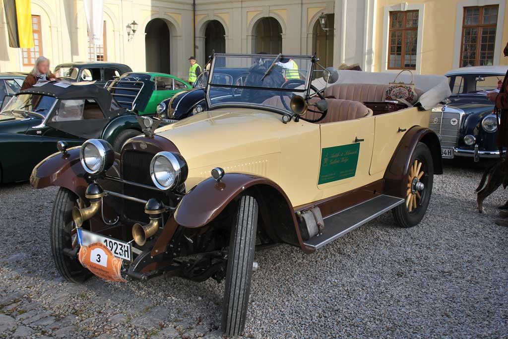 1923 Nash Model 4_IMG_3934